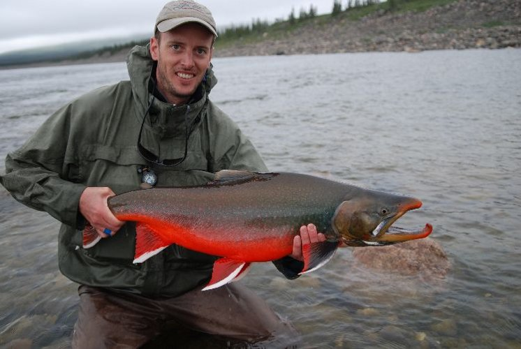 Large male arctic char... Original caption: Okay the picture is not taken by myself, since I am on the picture... But it was taken with my camera! This is the second largest arctic char I landed on my Nunavut trip, 98 cm long and 51cm around the belly. The fish was of course released, and we estimated it at 11 kg. One of the most beautiful fish I have been lucky to catch. On a pink Intruder fly, and 14 foot Spey rod.